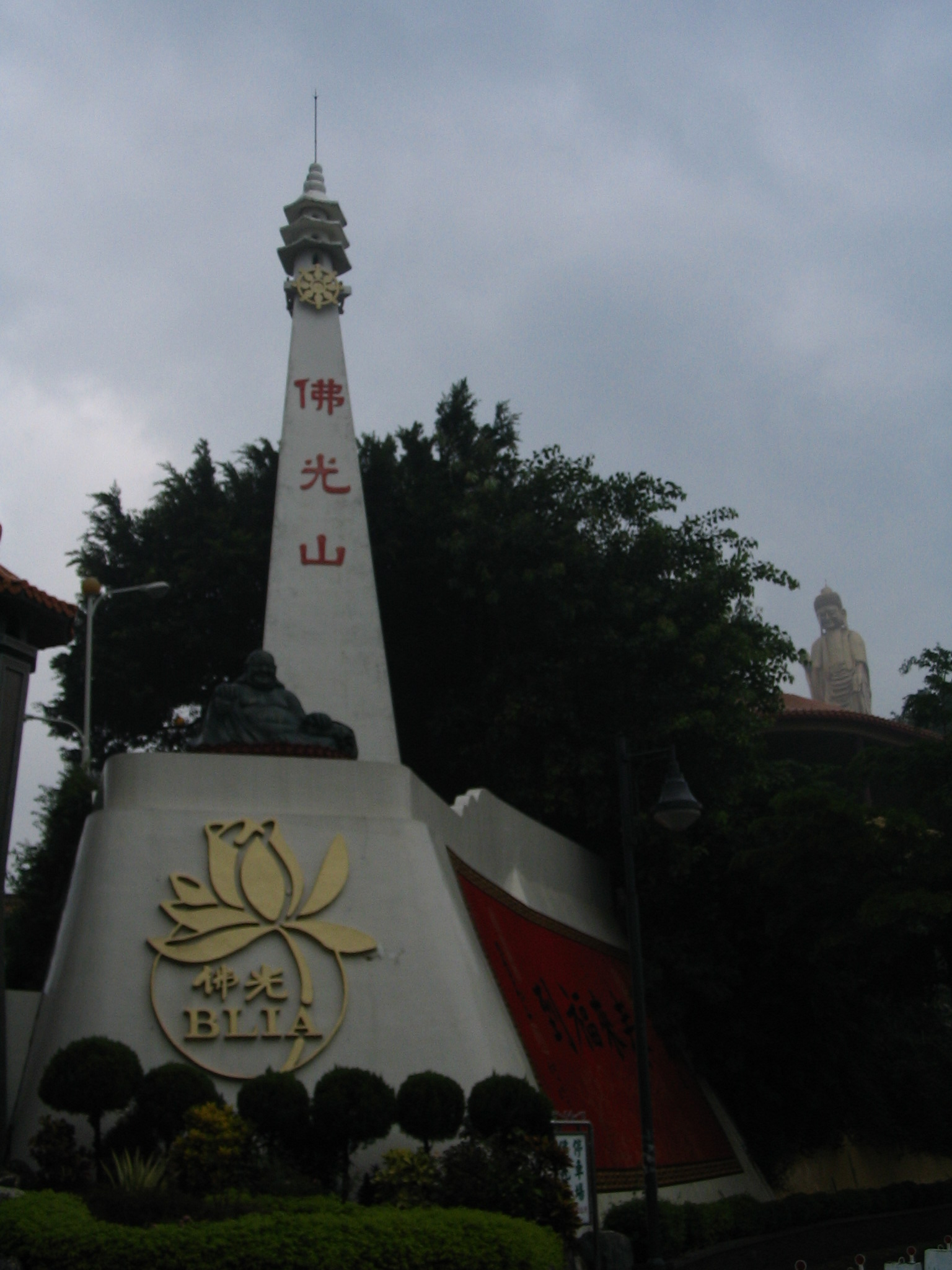 Fo Guang Shan, Taiwan: Entry to monastery